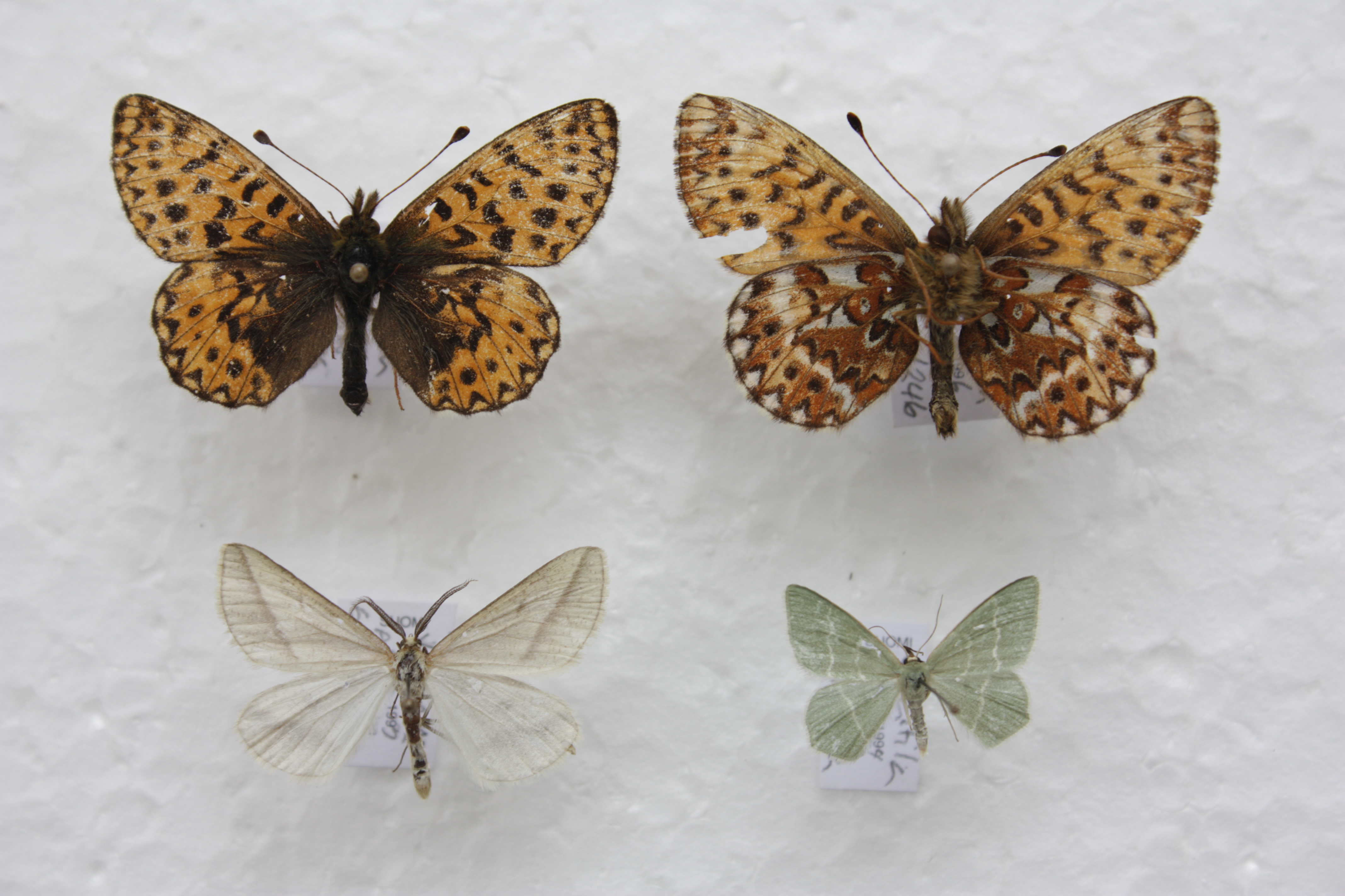 Lepidoptera collected from or near the Kurjenrahka National Park, Finland. Top: Clossiana (Boloria) freija (topside and underside), bottom left: Aspitates gilvaria, bottom right: Chlorissa viridata. All individuals collected by me, in 1994–1995.